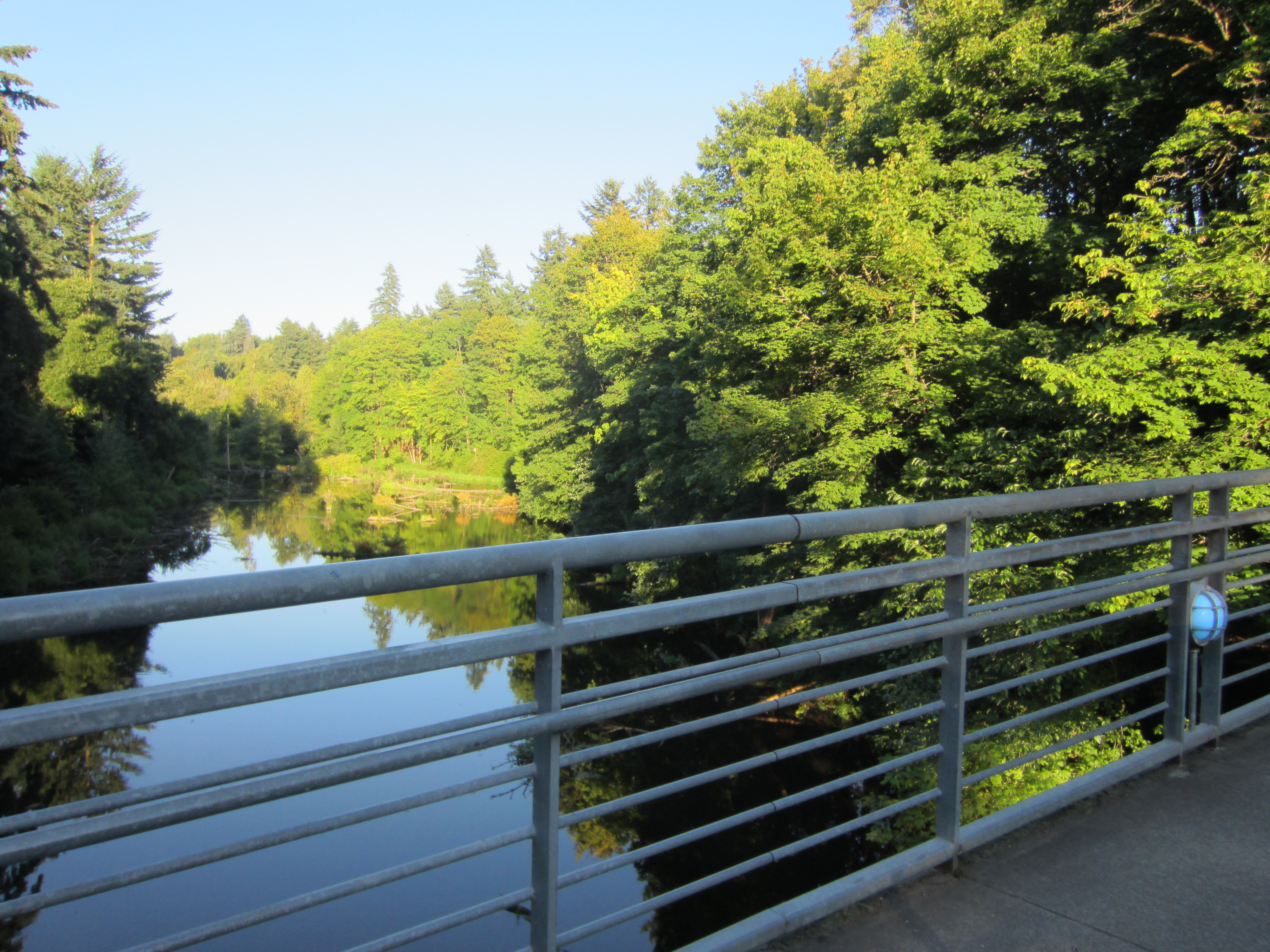 Blue Bridge at Reed College, Portland, Oregon (2012)